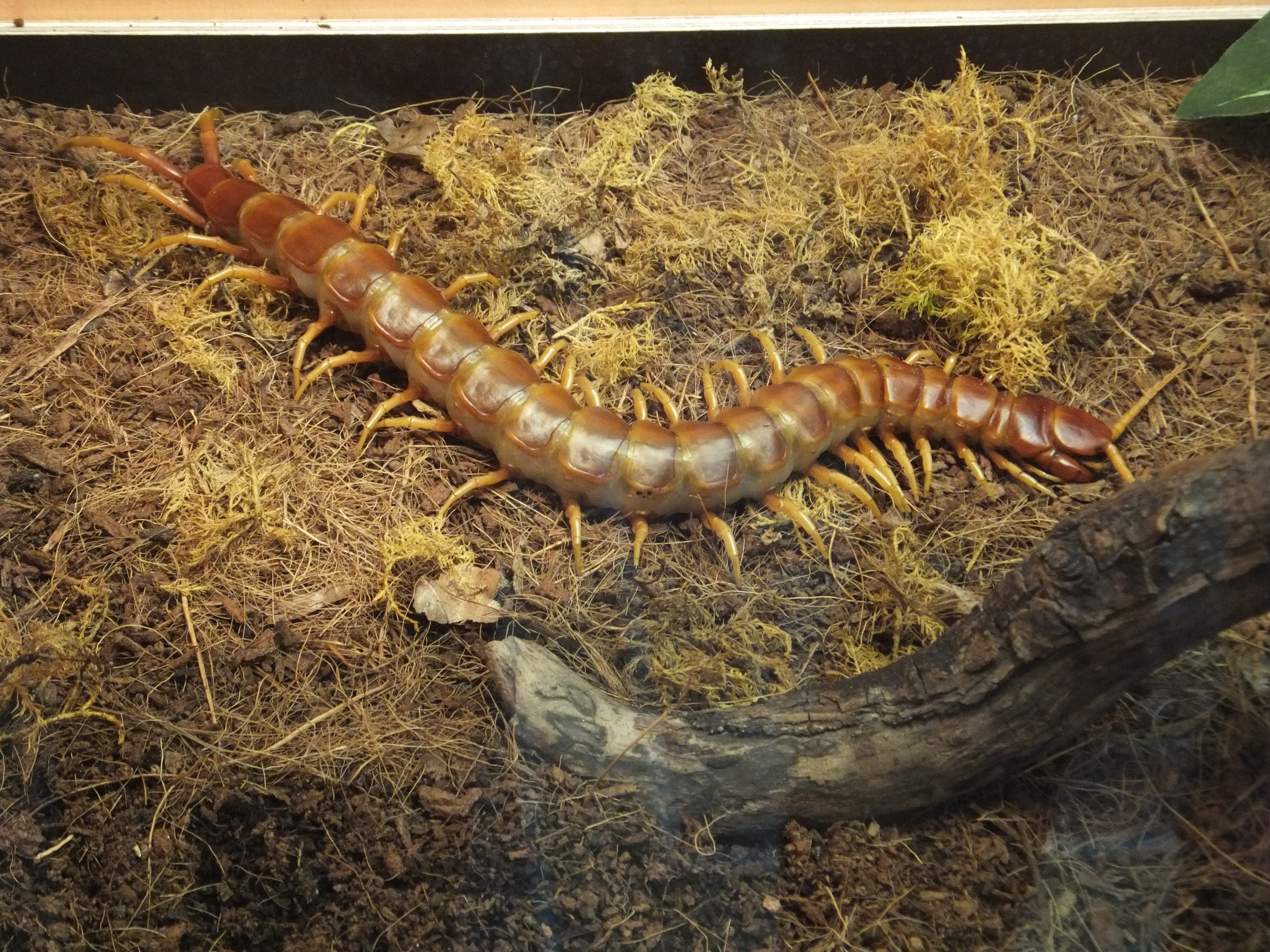 "SPIDERS" exposition at the Museo di storia naturale Giacomo Doria - Scolopendra gigantea